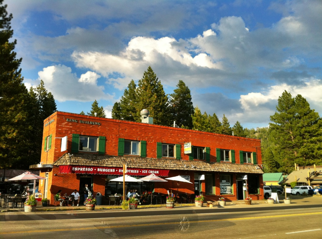 Downtown Kings Beach